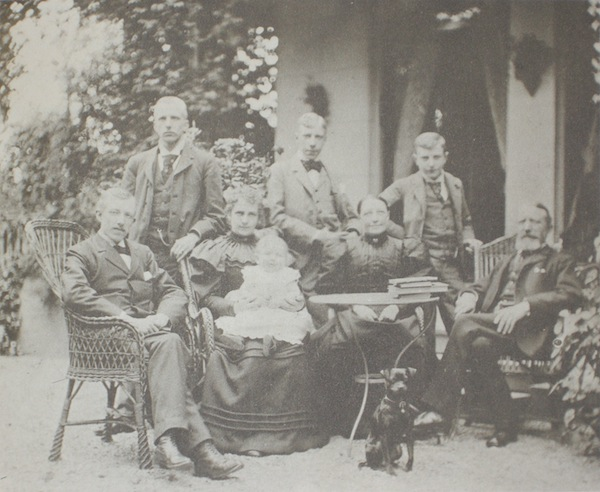 Foto van de familie Vinke uit de negentiger jaren van de 19de eeuw. Links Gerrit Warnderink, zijn broer Willem Jacob, zijn echtgenote Johanna Catharina Hendrina van Verre met zijn zoon Albertus Warnderink Vinke, de broers Egbert Hendrik en Nicolaas, en de stamvader Albertus Vinke met zijn echtgenote Geertruida Cornelia van Lindonk.